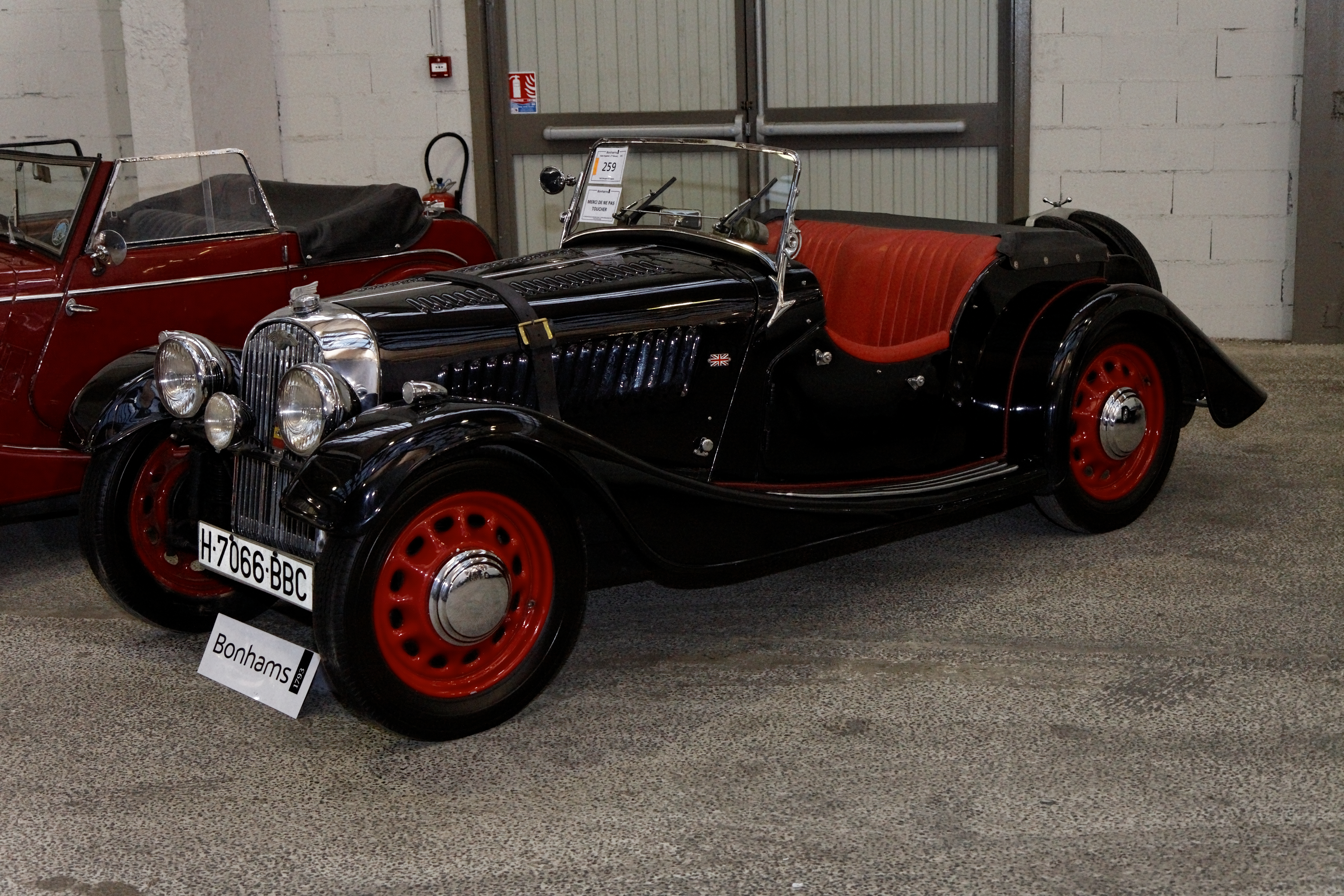 Morgan 4 4 Sports